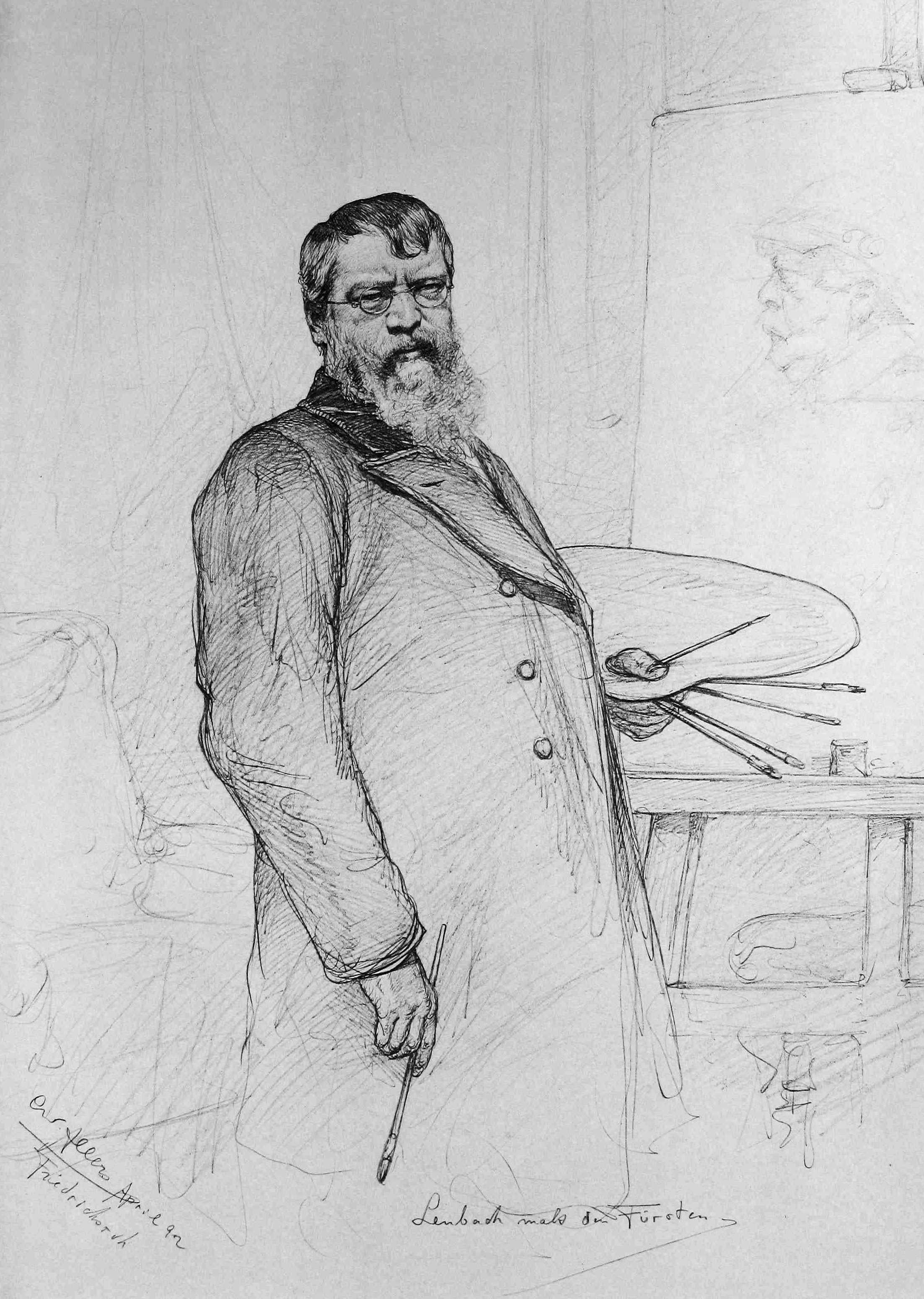 German Painter Franz von Lenbach